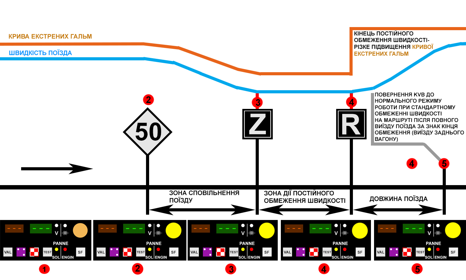 Speeding KVB VAL